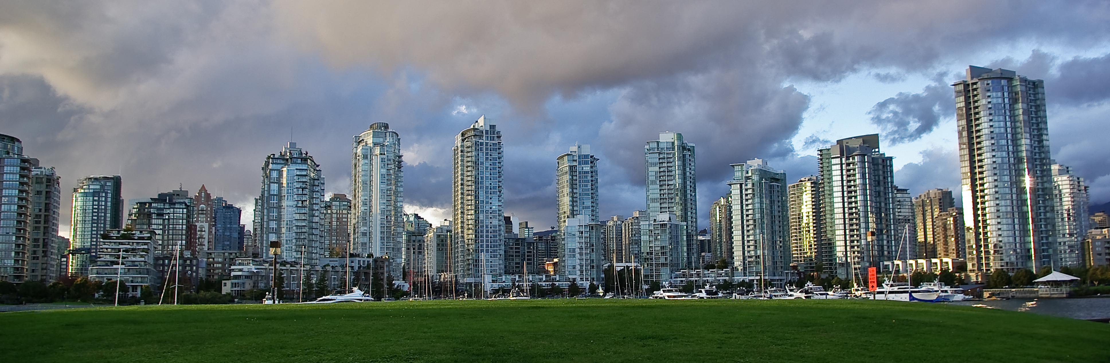 Another panorama of beautiful downtown Vancouver from a few months ago. Like most flickr panoramas, its better when you click 'all sizes' above.